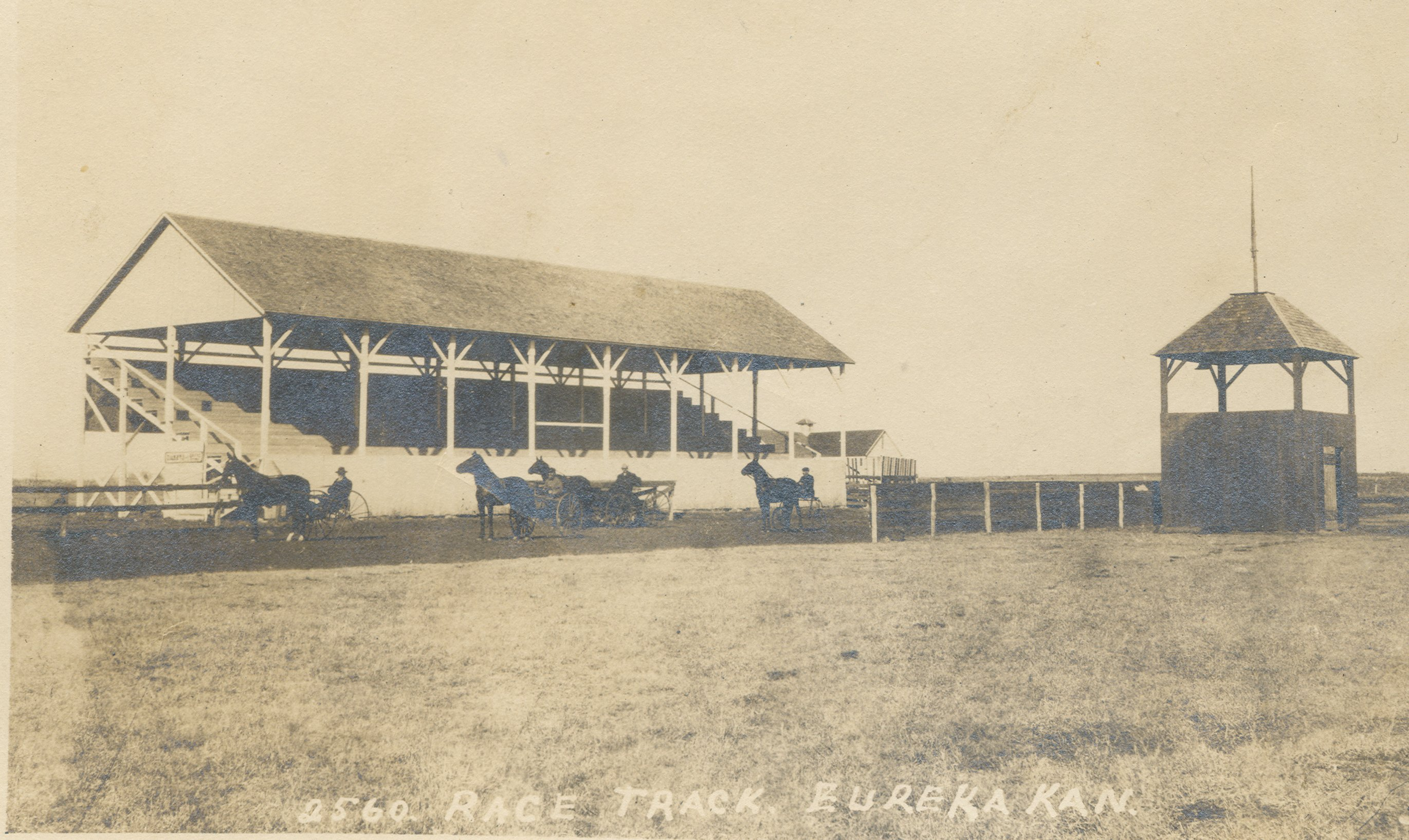 Eureka Downs, a horse track in Eureka, Kansas. Photo from around 1910.